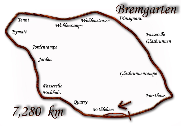 Diagram of the Bremgarten Circuit hosted the Formula One Swiss Grand Prix from 1950 to 1954.